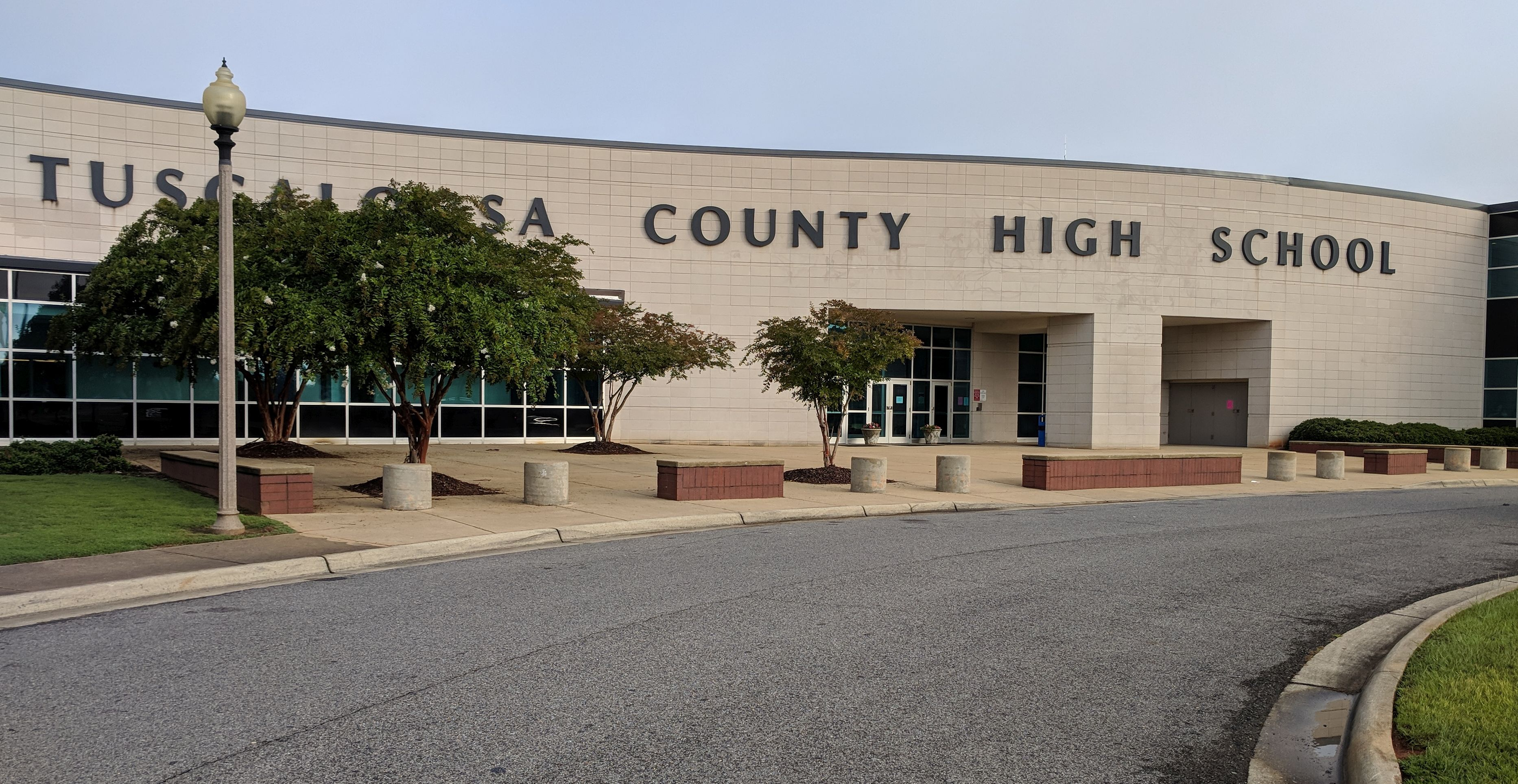 The front entry of Tuscaloosa County High School, Northport, Alabama.